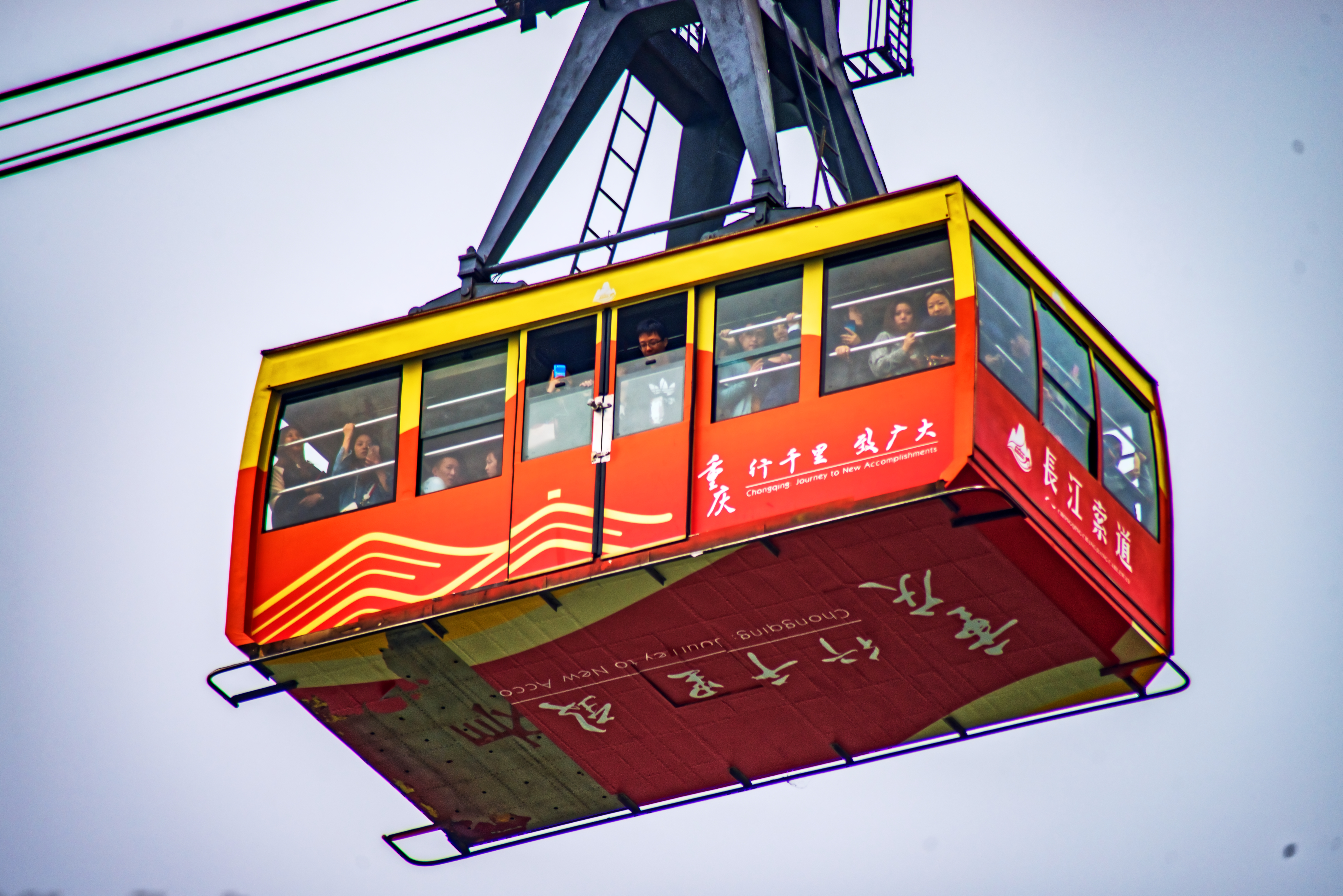 A aerial tramway across Yangtse river in Chongqing CBD Photo by Chen Hualin